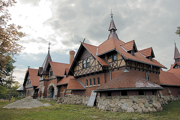 Humboldt Park Stables and Receptory, designed by the firm of Frommann & Jebsen and built in 1895 and 1896, restored by Harboe Architects following. Located near Paseo Boricua in Chicago. To house the Institute of Puerto Rican Art & Culture.